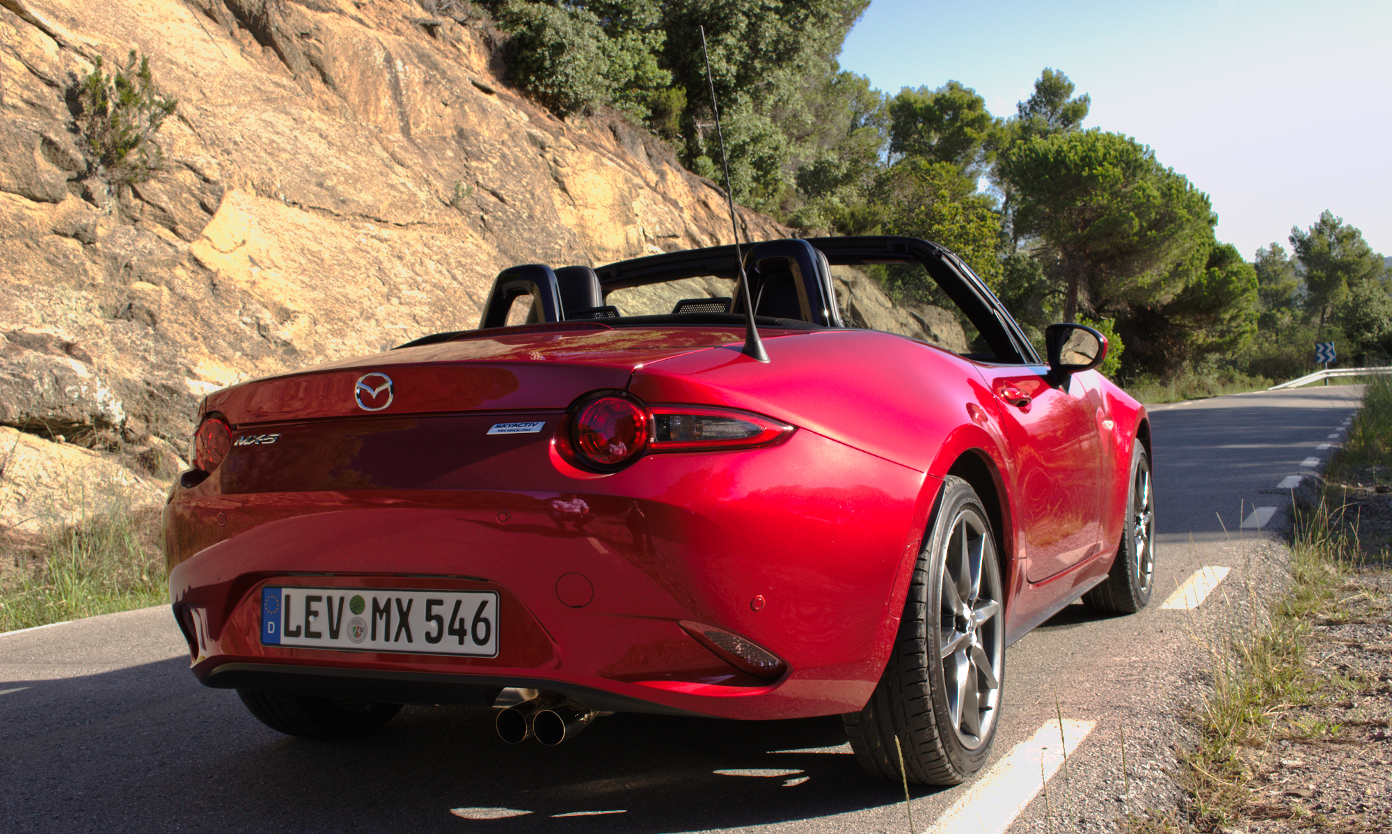 Mazda MX-5 ND 2.0 SKYACTIV-G 160 i-ELOOP Rear View